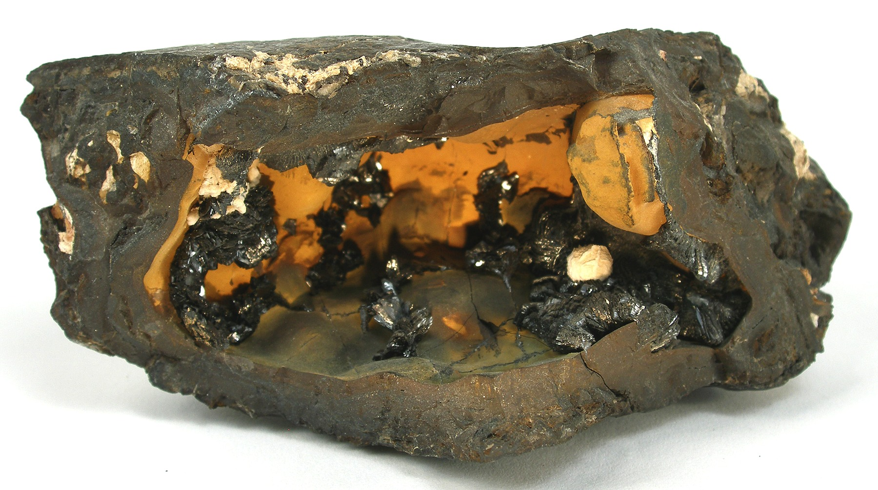 Groutite Locality: Emilie Mine (Bülten-Adenstedt Mine), Peine, Lower Saxony, Germany (Locality at ) Size: small cabinet, 9.5 x 4.8 x 4.2 cm Groutite This is an OUTSTANDING specimen of crystallized groutite in huge crystals and in a rich quantity, as well. The clusters of crystals measure to 1 cm and are richly scattered about a hollow vug inside this manganese nodule. The overall specimen is important for the species, but also interesting for how it shows the crystals formed, inside a hollowed nodule of the elemental manganese. It displays nicely from either angle, vertical or horizontal. When I first saw this specimen I was sure it was perhaps manganite or some other species, as groutite seldom forms such large crystals , nor such rich masses from other locations! But then I remembered I had one such before, as well. They are rare, and seldom seen. Also, the lustre on these crystals is quite good. From an old German collection recently starting to be sold...